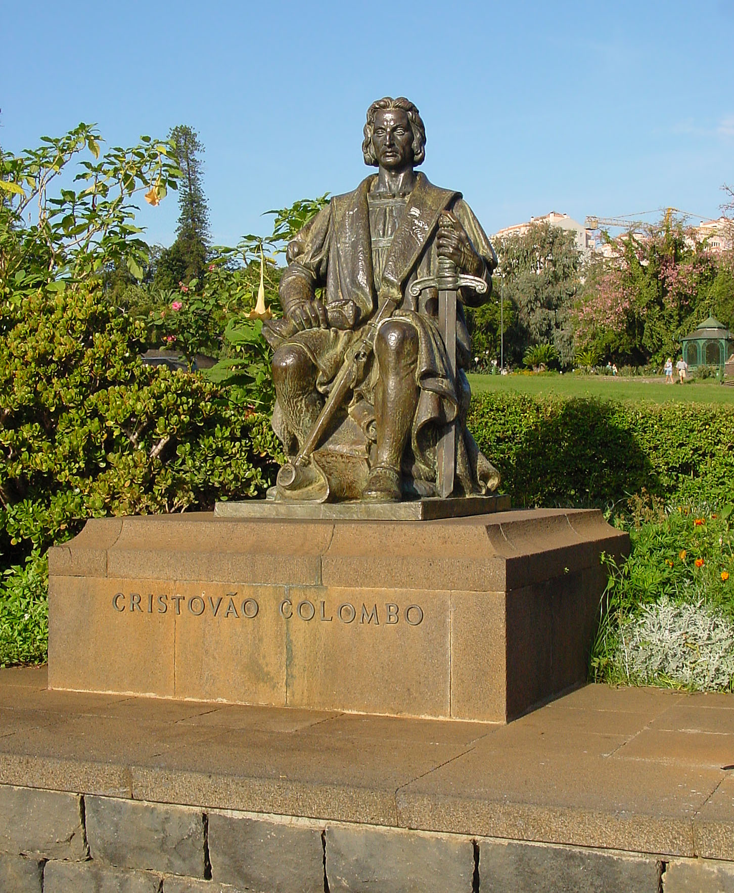 Funchal, Madeira. Statue of Christopher Columbus - OpenStreetMap (Info)